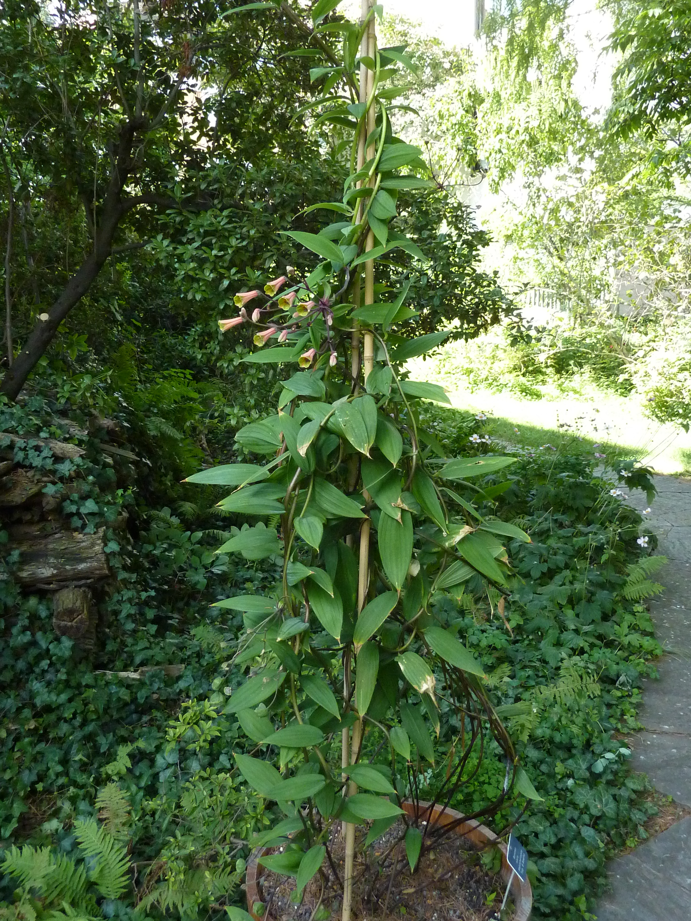 Bomarea edulis at the Botanical Garden of the University of Basel.